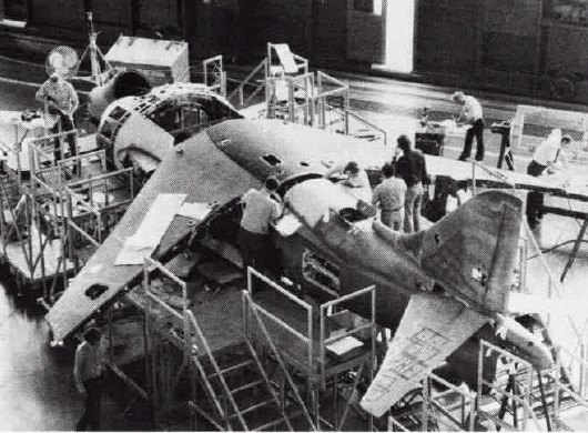 Construction of the first McDonnell Douglas YAV-8B Harrier (BuNo 158348) in 1978.